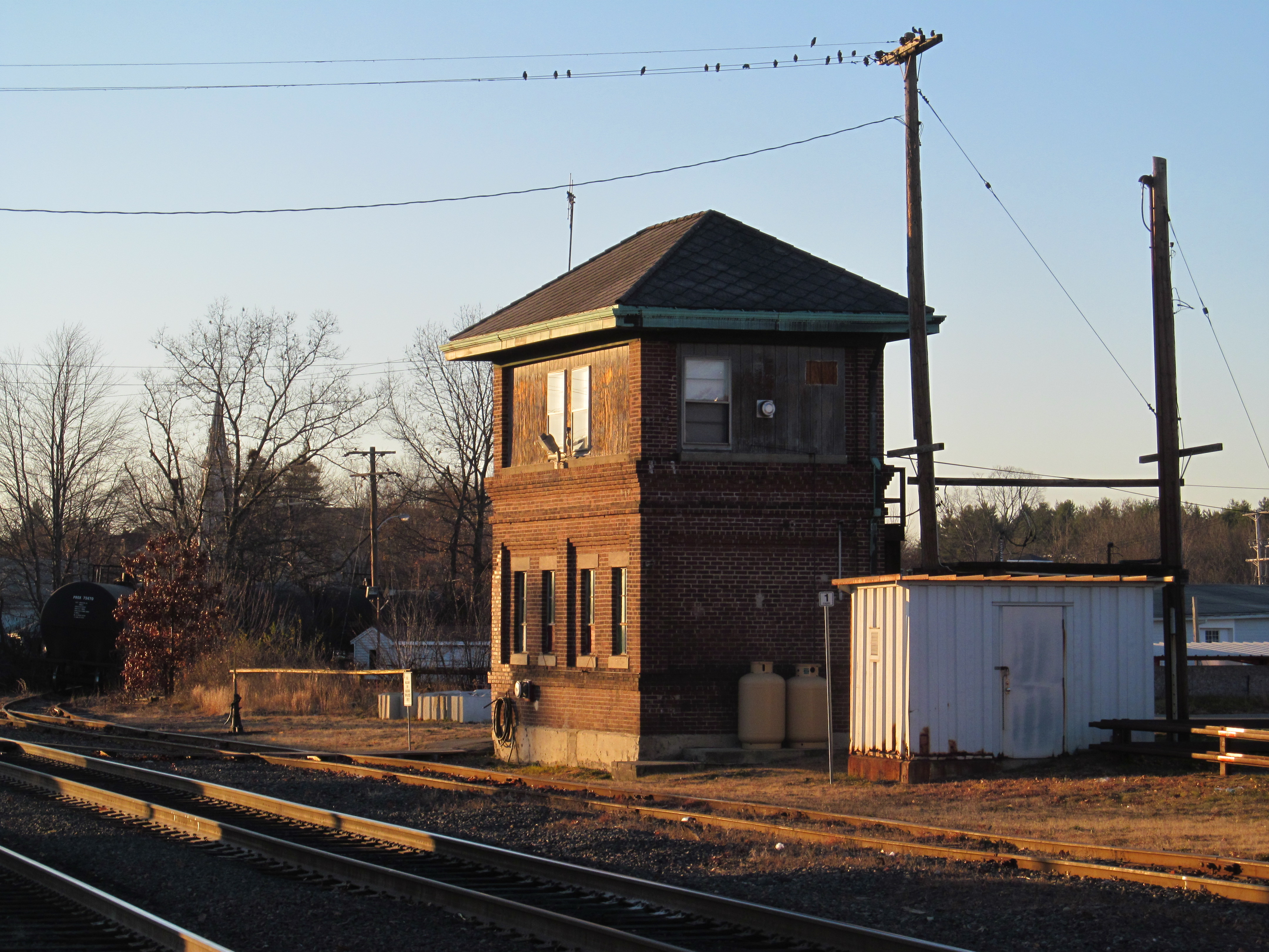 Interlocking tower at Ayer, Massachusetts. The tower sits at the junction of the Fitchburg Railroad (now the MBTA Fitchburg Line), the Peterborough & Shirley Railroad, and the Worchester & Nashua Railroad.